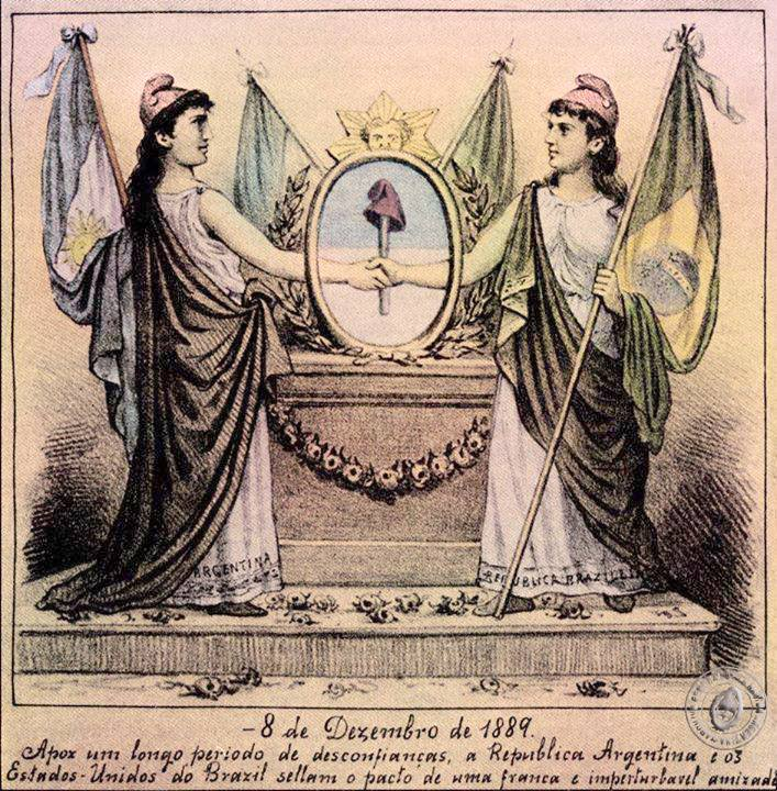 Friendship deal between Brazil and Argentina. Revista Ilustrada, 14 December 1889.The inscription in Portuguese reads: "8 de Dezembro de 1889. Apor um longo periodo de desconfianças, a Republica Argentina e os Estados Unidos do Brazil sellum o pacto de uma franca e imperturbavel amizade." (8 December 1889. After a long period of distrust, the Republic of Argentina and the United States of Brazil sign here a deal of sincere and long-lasting friendship)